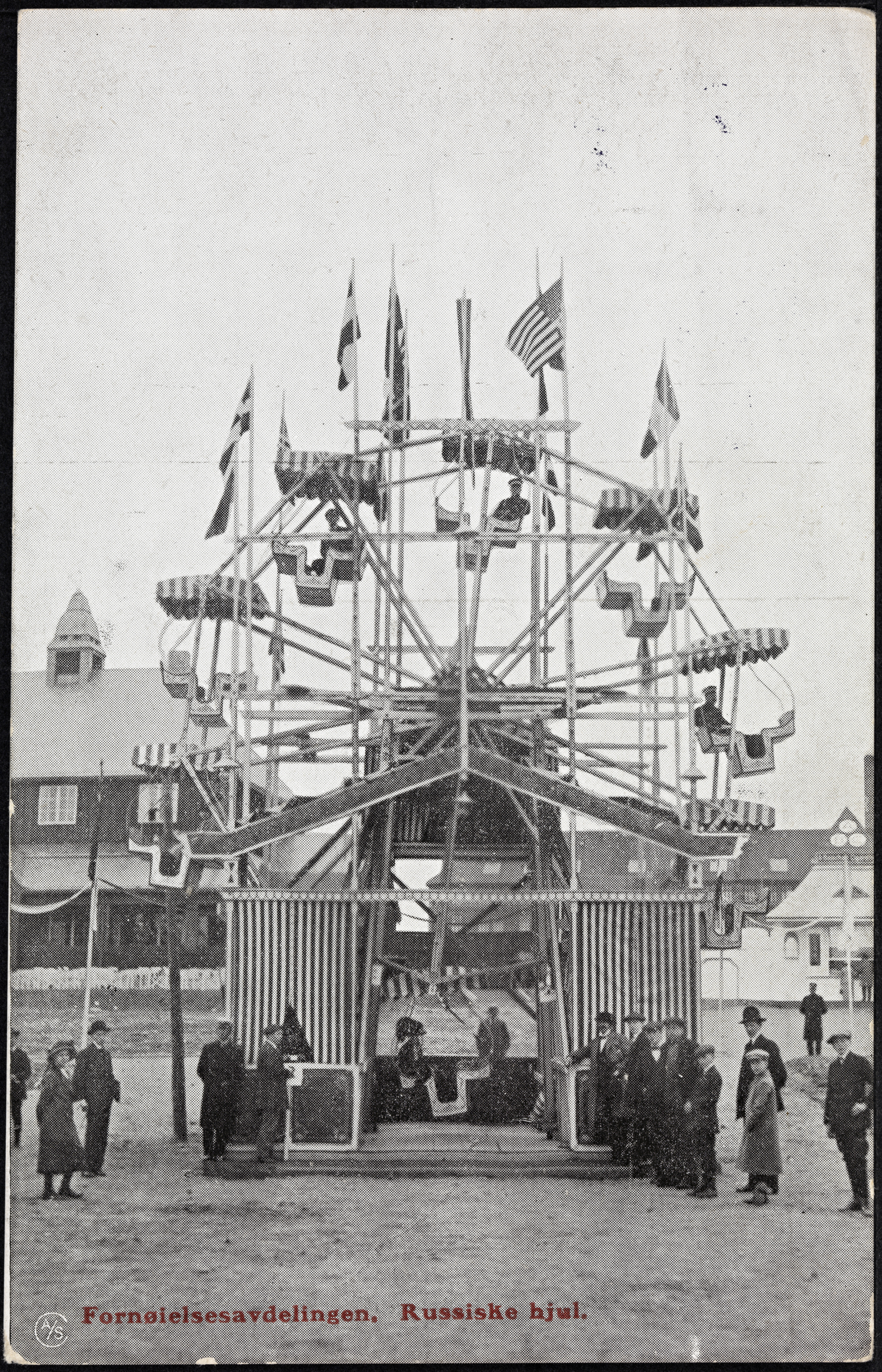 Dato / Date: 1914 Sted / Place: Oslo, Frogner Fotograf / Photographer: ukjent / unknown Utgiver / Publisher: ukjent / unknown Digital kopi av original / Digital copy of original: s/h postkort, trykt Eier / Owner Institution: Nasjonalbiblioteket / National Library of Norway Lenke / Link: Bildesignatur / Image Number: bldsa_PK10397